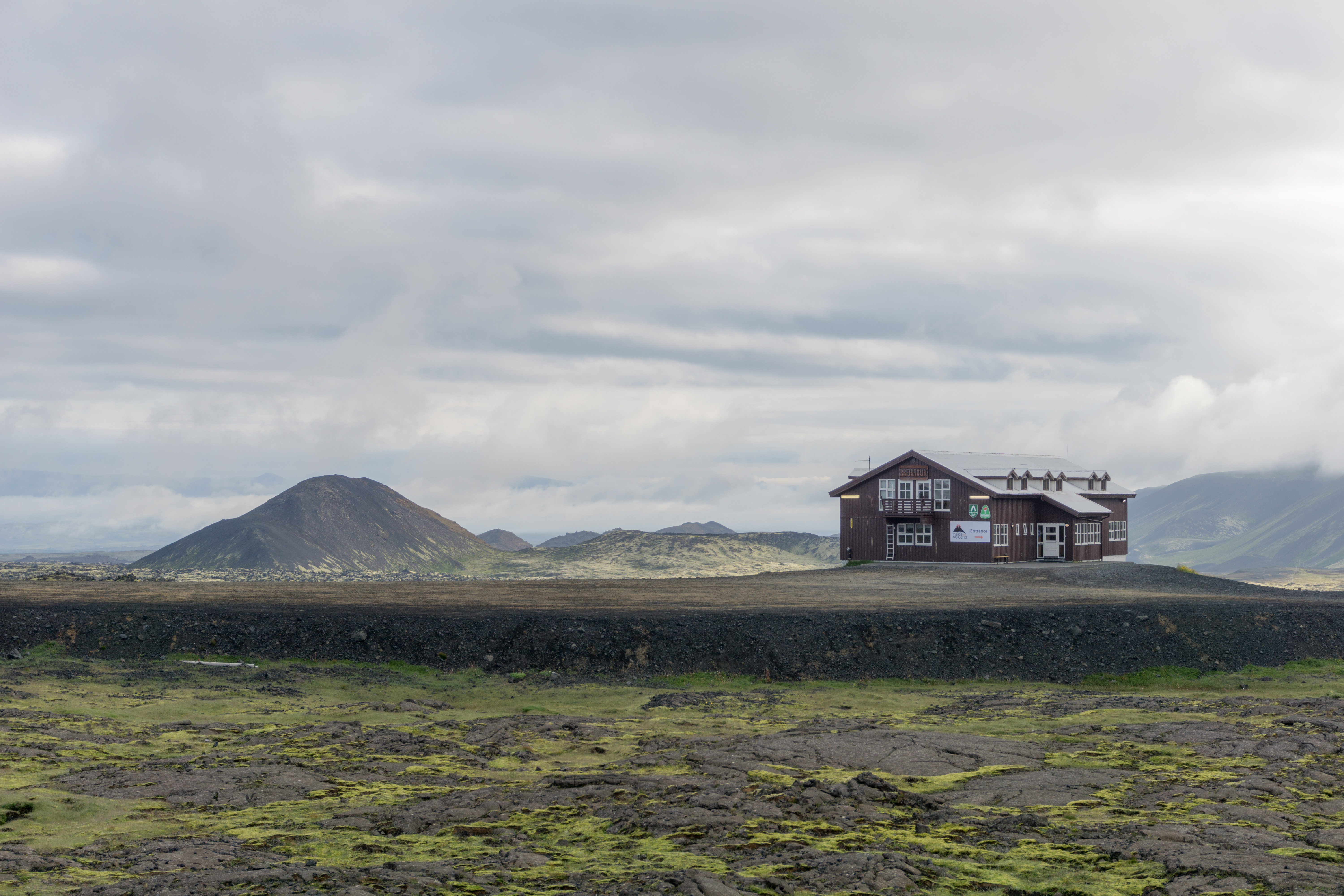 A hut. Taken from the hiking trail Reykjavegur, Iceland